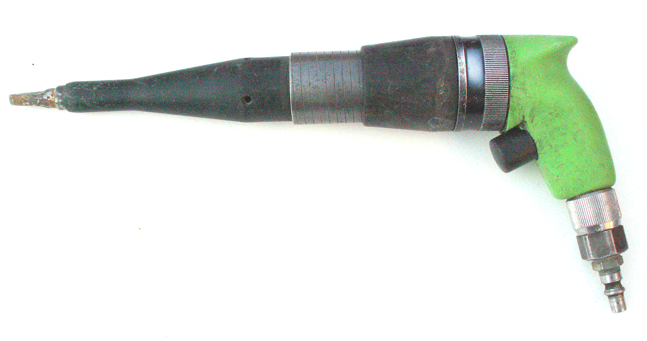 A German pistol-type air hammer, pressure regulating trigger valve. This hammer comes with a vibration guard against deadening of the fingers caused by constant vibration. The chisel is contained within, but is interchangeable. Mostly used by sculptors. A slightly different model without vibration guard is preferred by stonemasons.